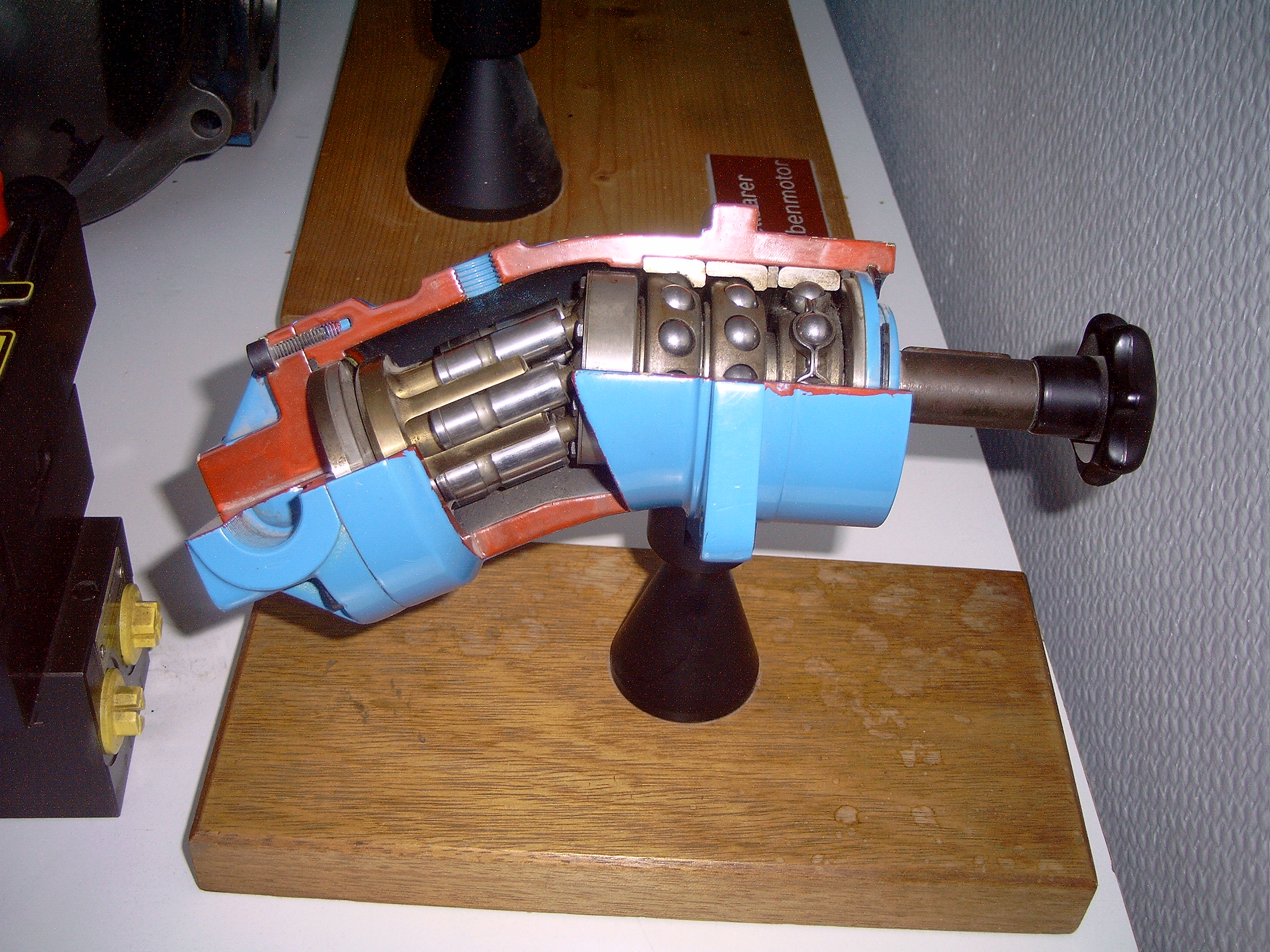 fuelpump